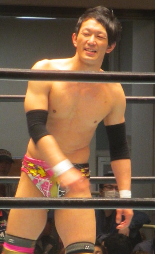 Japanese professional wrestler,Shinobu. Mar 5 2017, BJW Korakuen Hall.